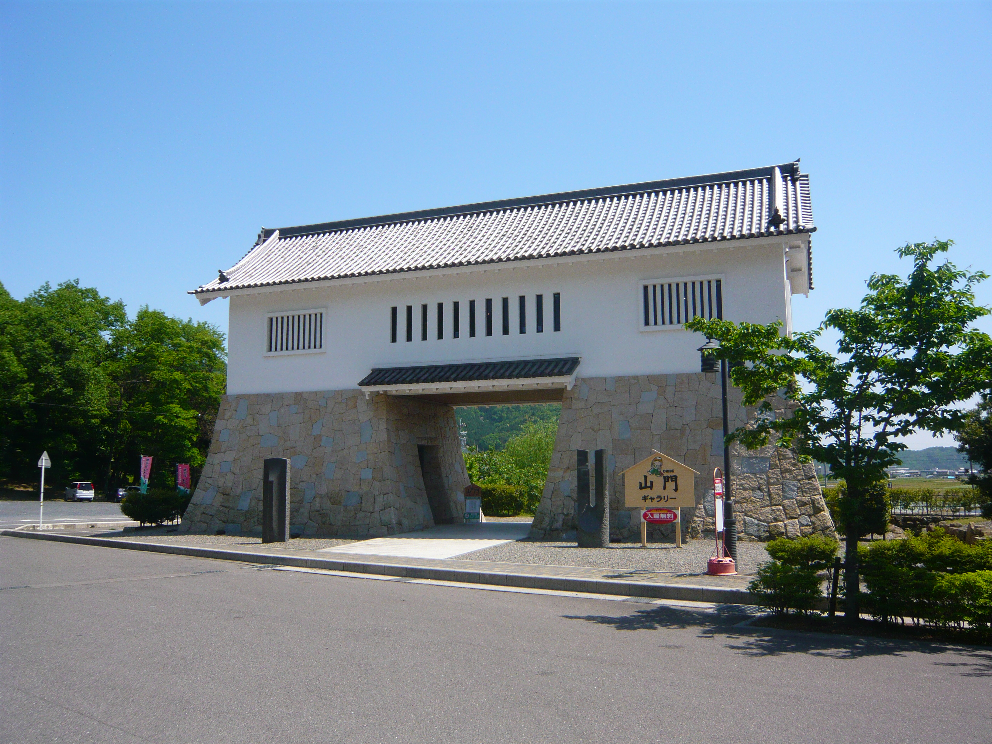 Oribe no Sato Motosu (Roadside Station), Motosu, Gifu, Japan